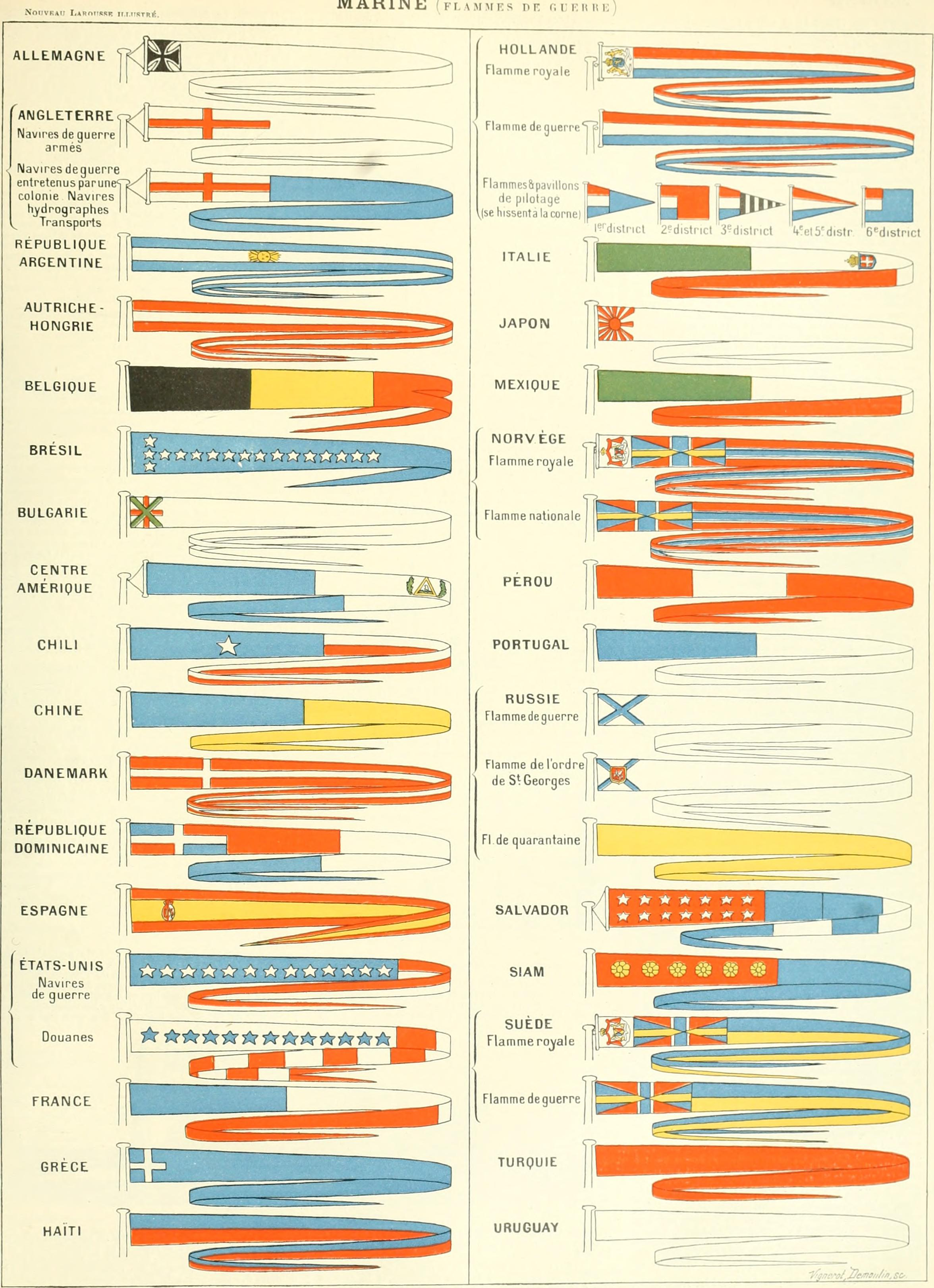 Title: Nouveau Larousse illustré : dictionnaire universel encyclopédique Year: 1898 (1890s) Authors: Larousse, Pierre, 1817-1875 Augé, Claude, 1854-1924 Subjects: Encyclopedias and dictionaries, French Publisher: Paris Larousse Text Appearing Before Image: visageai t pas la possibilité de mettre des roues aux grosvaisseaux à deux et trois ponts. En 1842, Je Napoléon,plus tard le Corse étaient lancés par la maison Normand, auHavre, et inauguraient la marine à vapeur à hélice. Onvit bientôt paraître les frégates mixtes, puis les vais-seaux mixtes, et le Ckarlemagne, qui fut le premier trans-formé, reçut une machine de 500 chevaux. Quand leNapoléonf navire à deux batteries, fut lancé en 1852, il MARINE (f Text Appearing After Image: Vijir . l.w 1 Li.jN ^, i^:-K, CUUljELll. KliKGAIt, 1 i U lIL L h L II , MAT, M A 1 L U K , NtIl.LHE, ETC. MARINE développa une vitesse de 13 milles et demi à lheure. LaFrance venait do remporter sur les étraDgers, les Anglaisen particulier, un éclatant succès maritime, qui saftirmaen Crimée, par larrivée des batteries flottantes cuiras-sées, premier pas vers les navires cuirassés et lemploidu fer dans la construction En1857, nouveau progrès à lactif dela marine française, avec lappantion des frégates cuirassées dontle premier spécimen, la Oloiieétait dû à 1 illustre Dupuj dehàmc, créateur du Napoléon Cettefrégate cuirassée de bout en boutet de haut en bas avait lavantdroit ot déplaçait 5.700 tonneauxElle marchait à plus de 12 milles a *^ ■—i riieuro. Un peu plus tard, on \oit j^K^paraître les vaisseaux cuirassés T*^ __ _^:^^^type Mafjenta, de 7.000 tonneaux ^~^J^::ZS~^ de déplacement. La lutte étaitentamée entre la cuirasse et lecanon, ot elle ne va